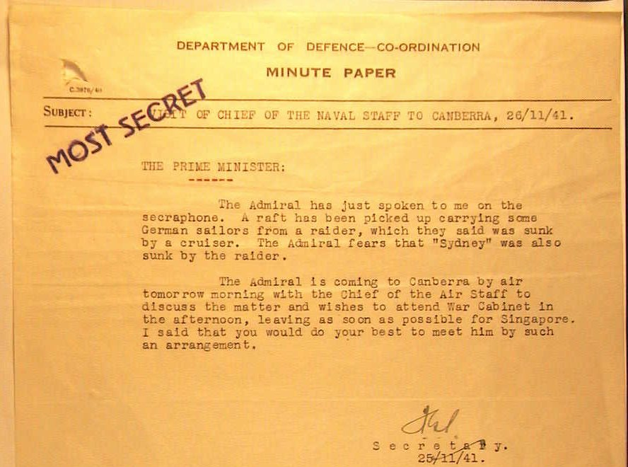 Memo from Frederick Shedden to John Curtin. The first formal advice to the Prime Minister that the HMAS Sydney was believed lost. Source: National Archives of Australia A5954, 2400/21